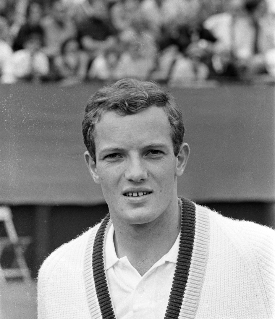 Tennis on the METS-courts in The Hague, Dutch tennis player Tom Okker